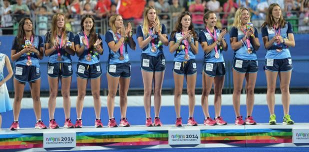 Victory ceremony field hockey, girls competition. 2014 Summer Youth Olympics.